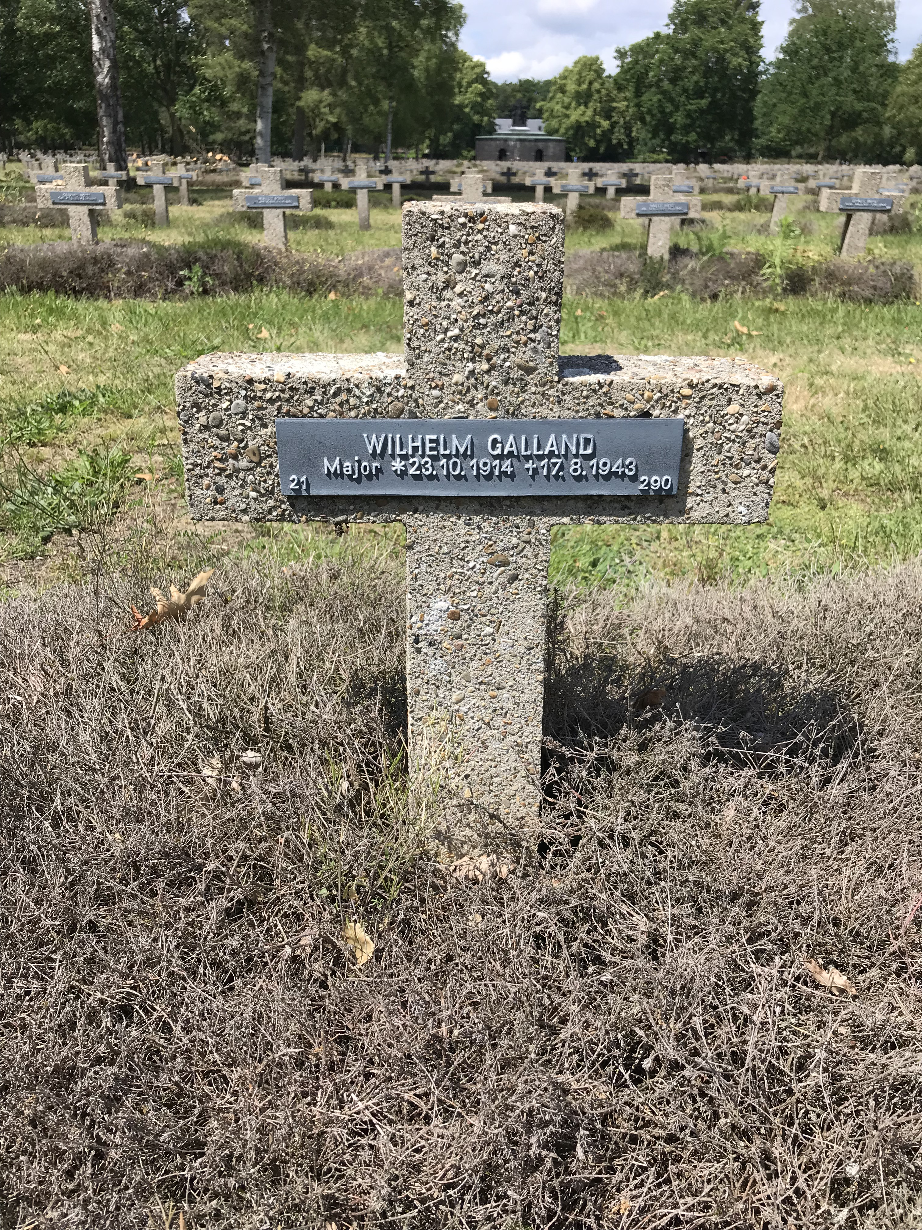 Grave of Wilhelm Galland 21-290